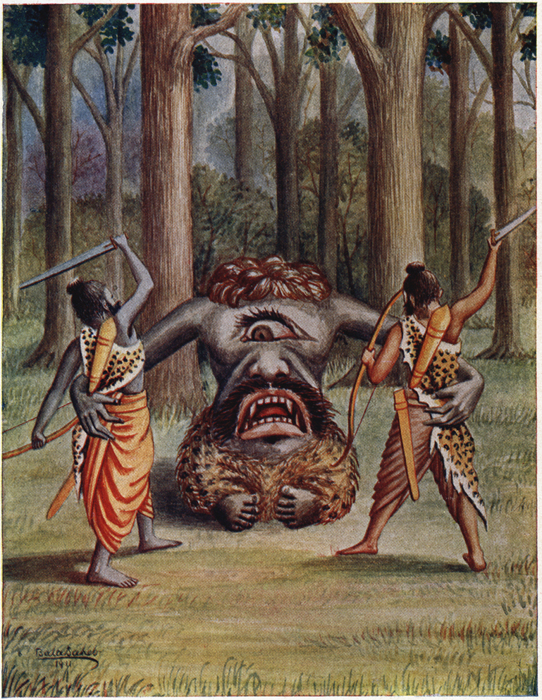 The Picture Ramayana - by Balasaheb Pant published c. 1916-1924